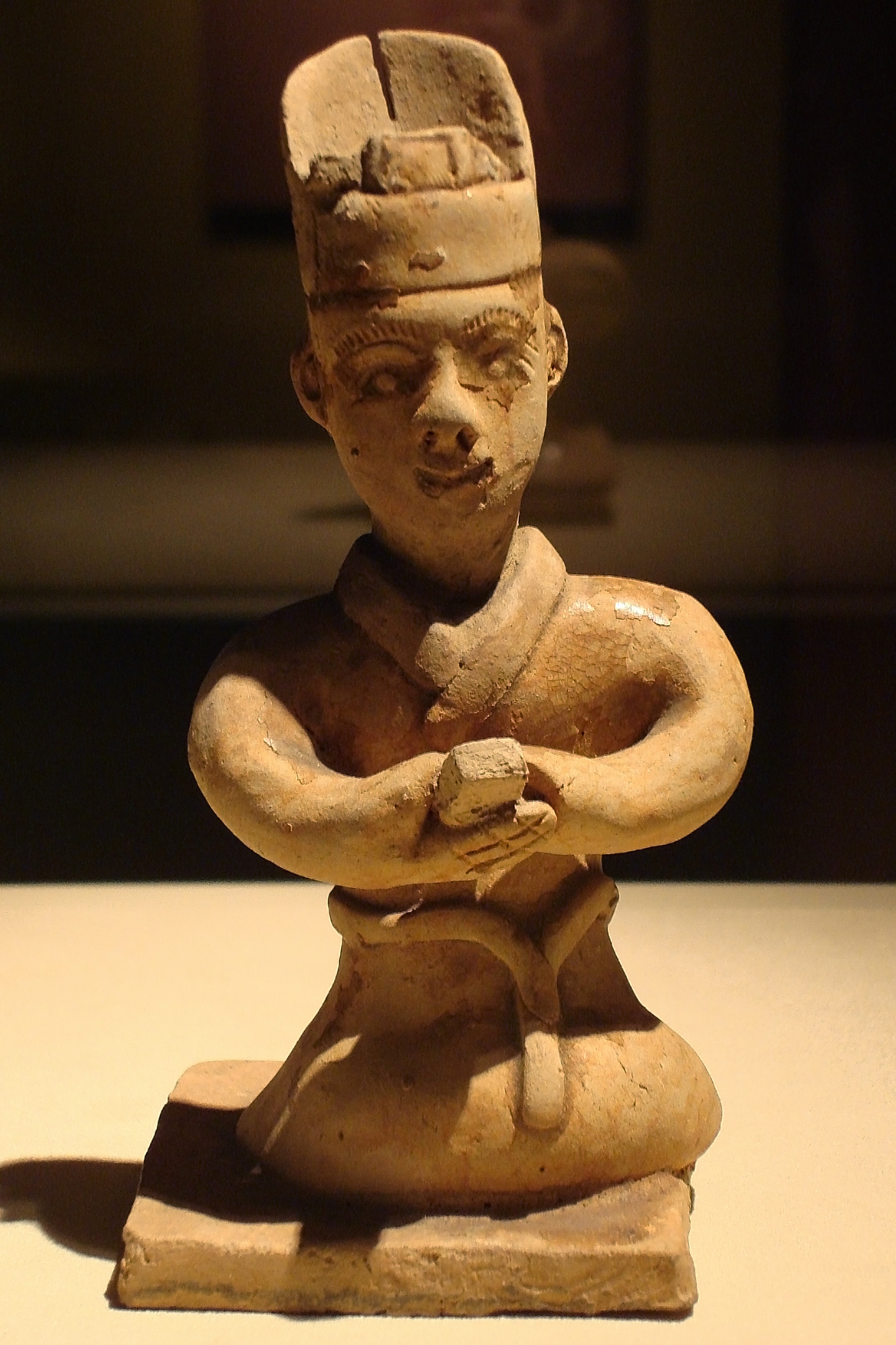 Figure of a Senior Clerk. Western Jin Dynasty (A.D. 265 - 316) Excavated at Changsha, Hunan Province, 1955 From the tomb of a senior official, this funerary object shows a senior clerk kneeling as he delivers a report to his superiors. He wears a high official hat and a belted robe; the lively figure reflects the working life of a member of an official retinue during Jin times.